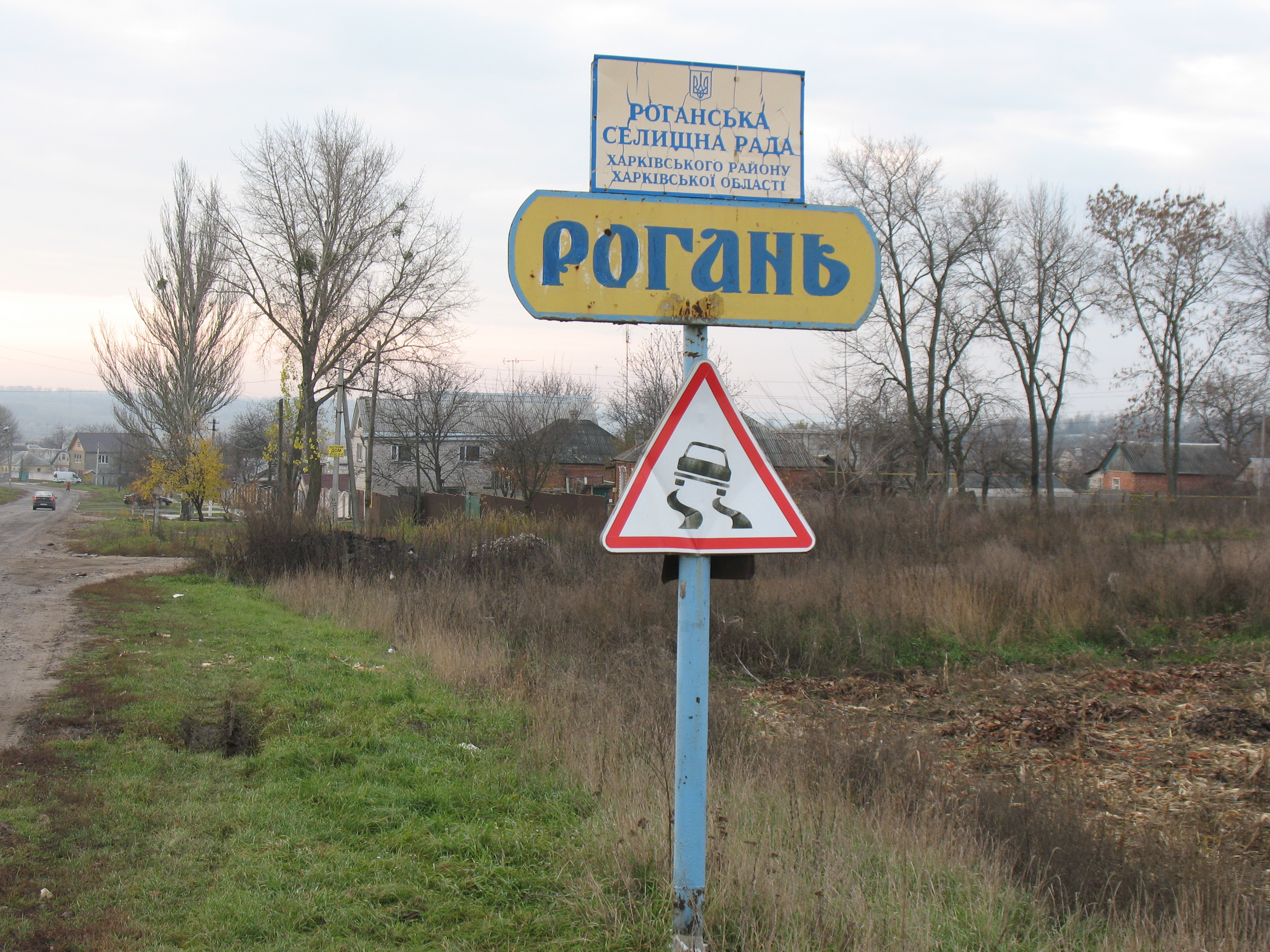 Rogan.